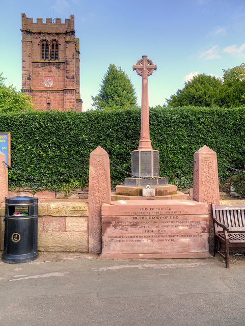 Photograph of the war memorial in Tarvin, Cheshire, England